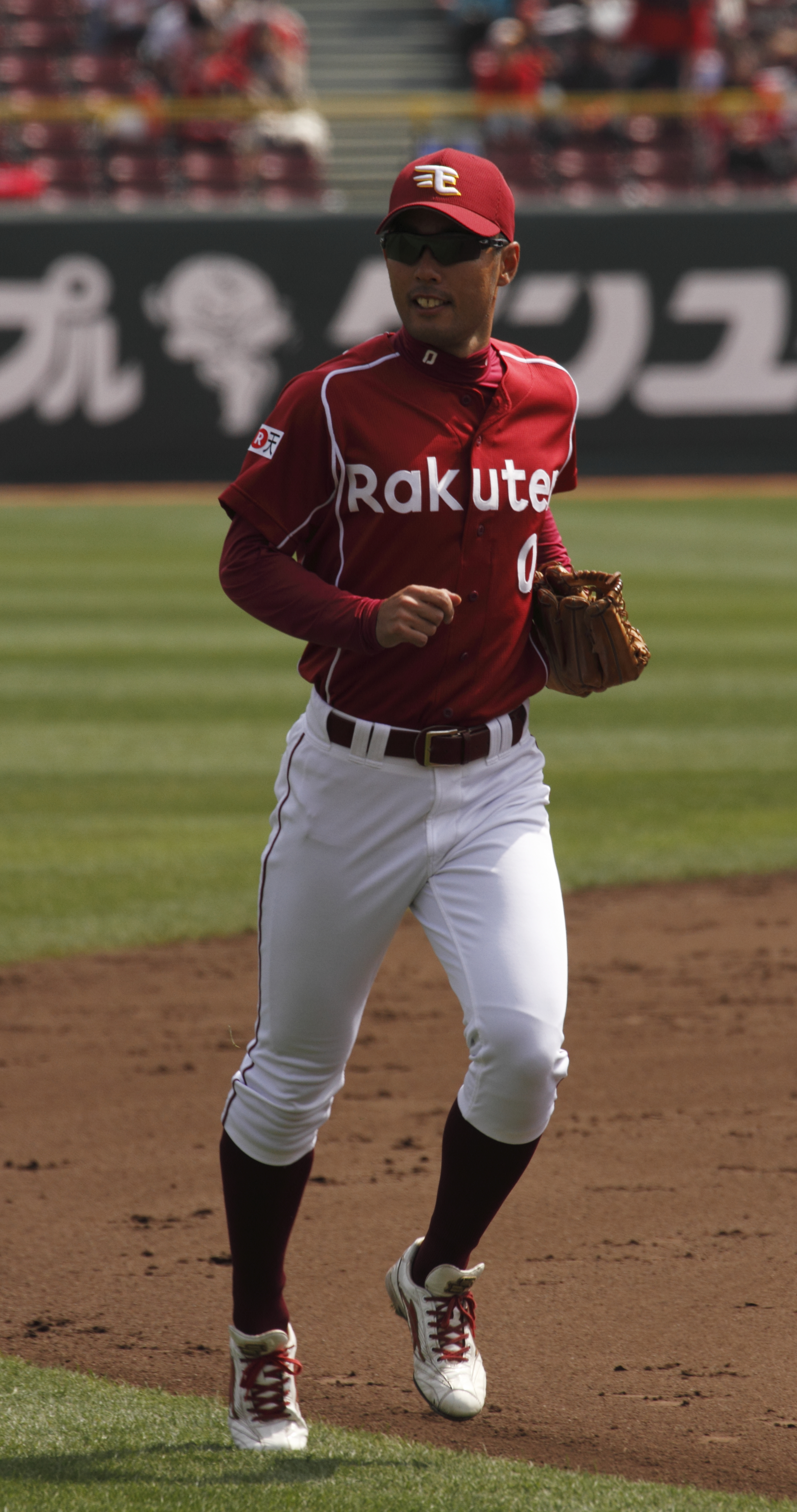 Makoto Moriyama, outfielder of the Tohoku Rakuten Golden Eagles, at MAZDA Zoom-Zoom Stadium Hiroshima